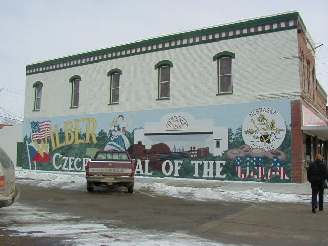 Photograph made by Michael C. Berch (User:MCB) on 2000-12-30